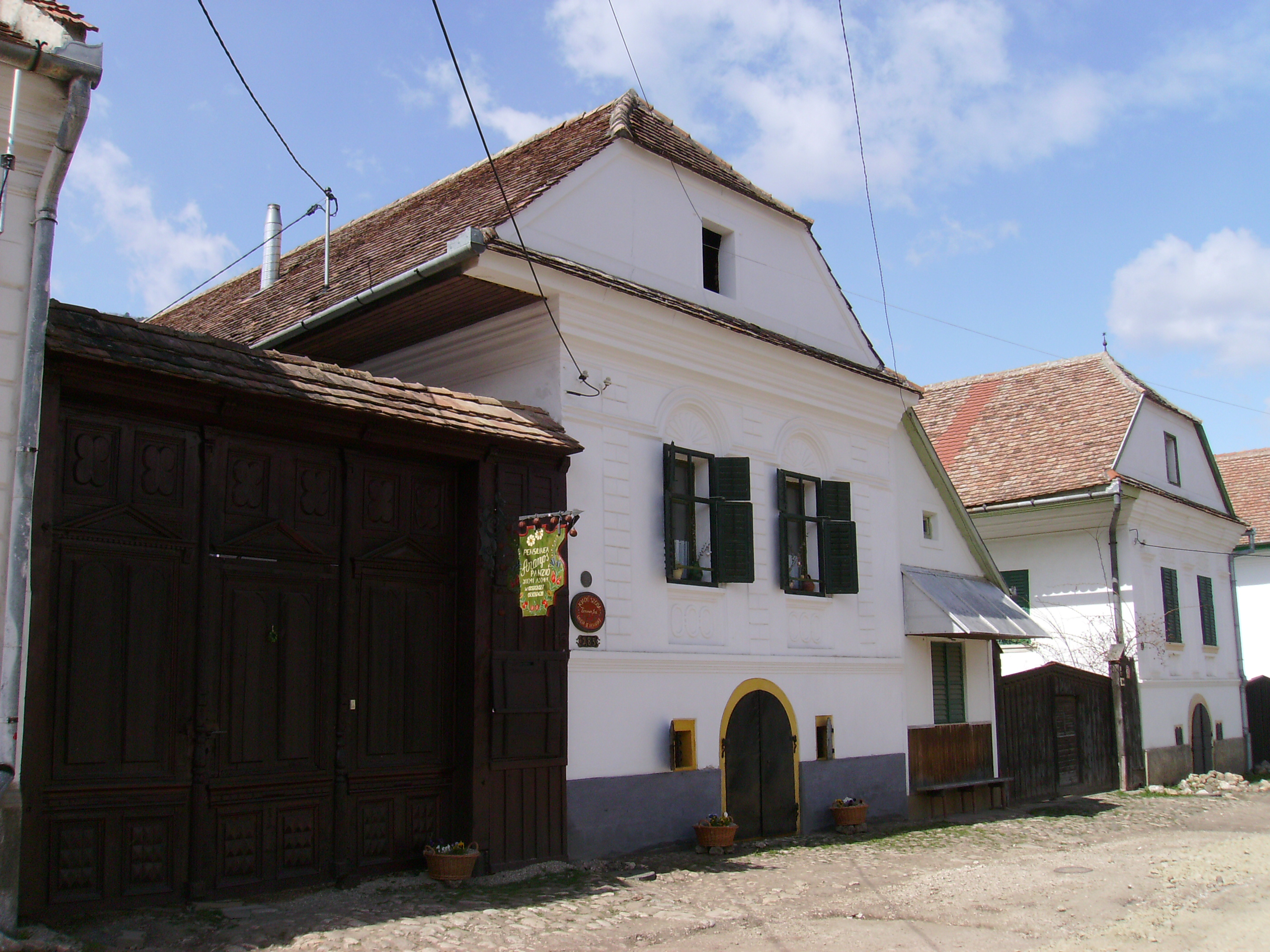 Traditional house in Rimetea, Transylvania, Romania.